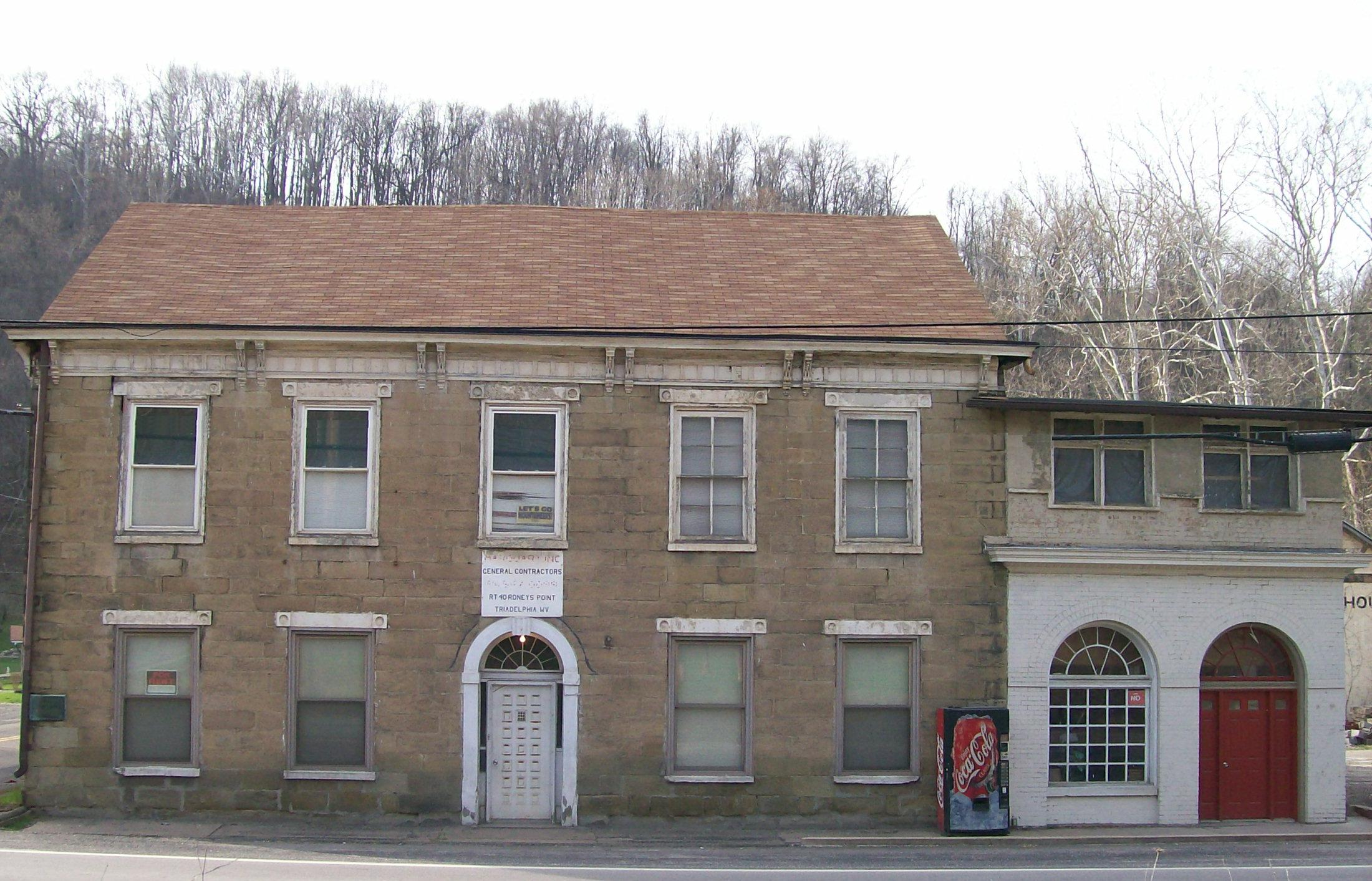 The Stone Tavern at Roney's Point in WV. The tavern is listed on the NRHP along with the Stone House, also on the property. Taken looking north on April 2, 2010.